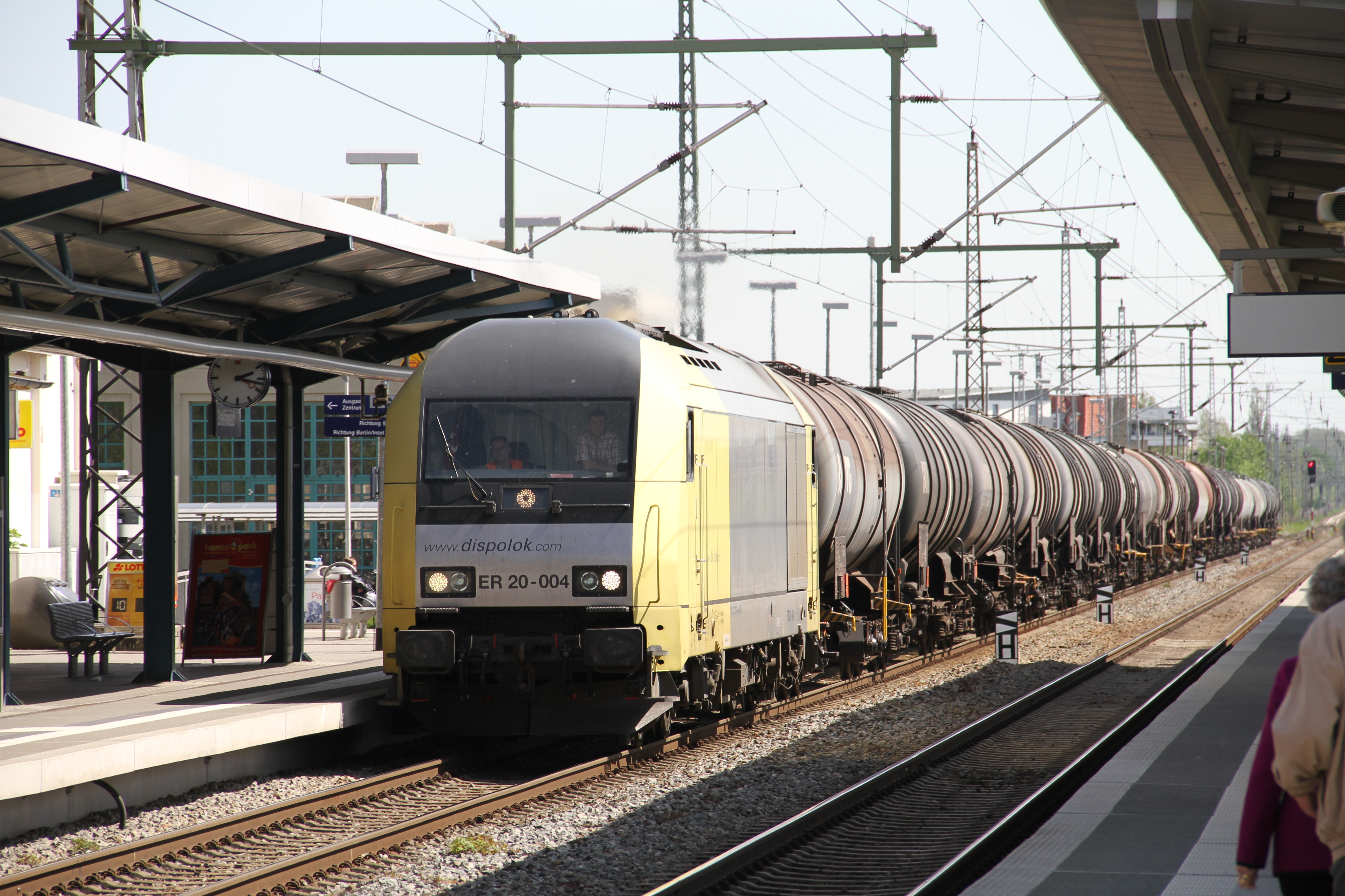 Bahnhof Greifswald (Greifswald main station) in May 2012.